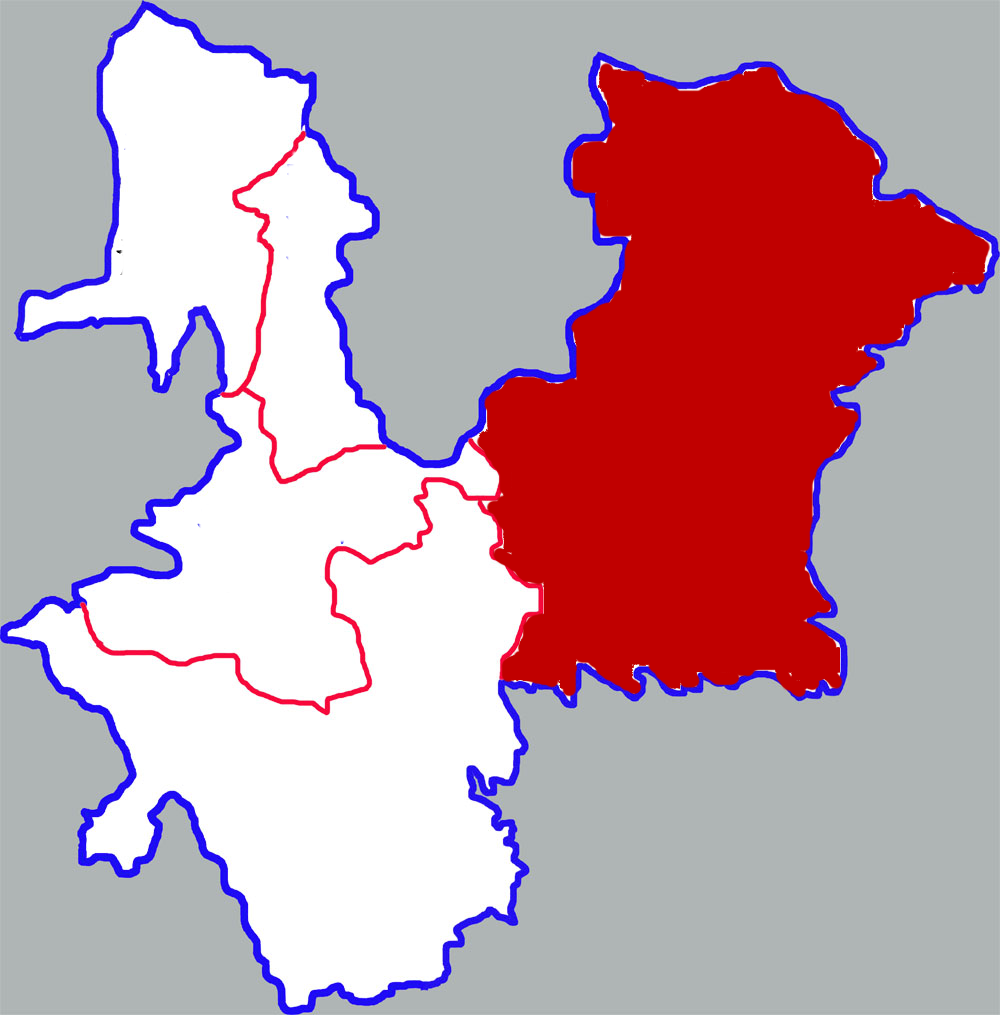 Location of Yanchi county in Wuzhong city, China